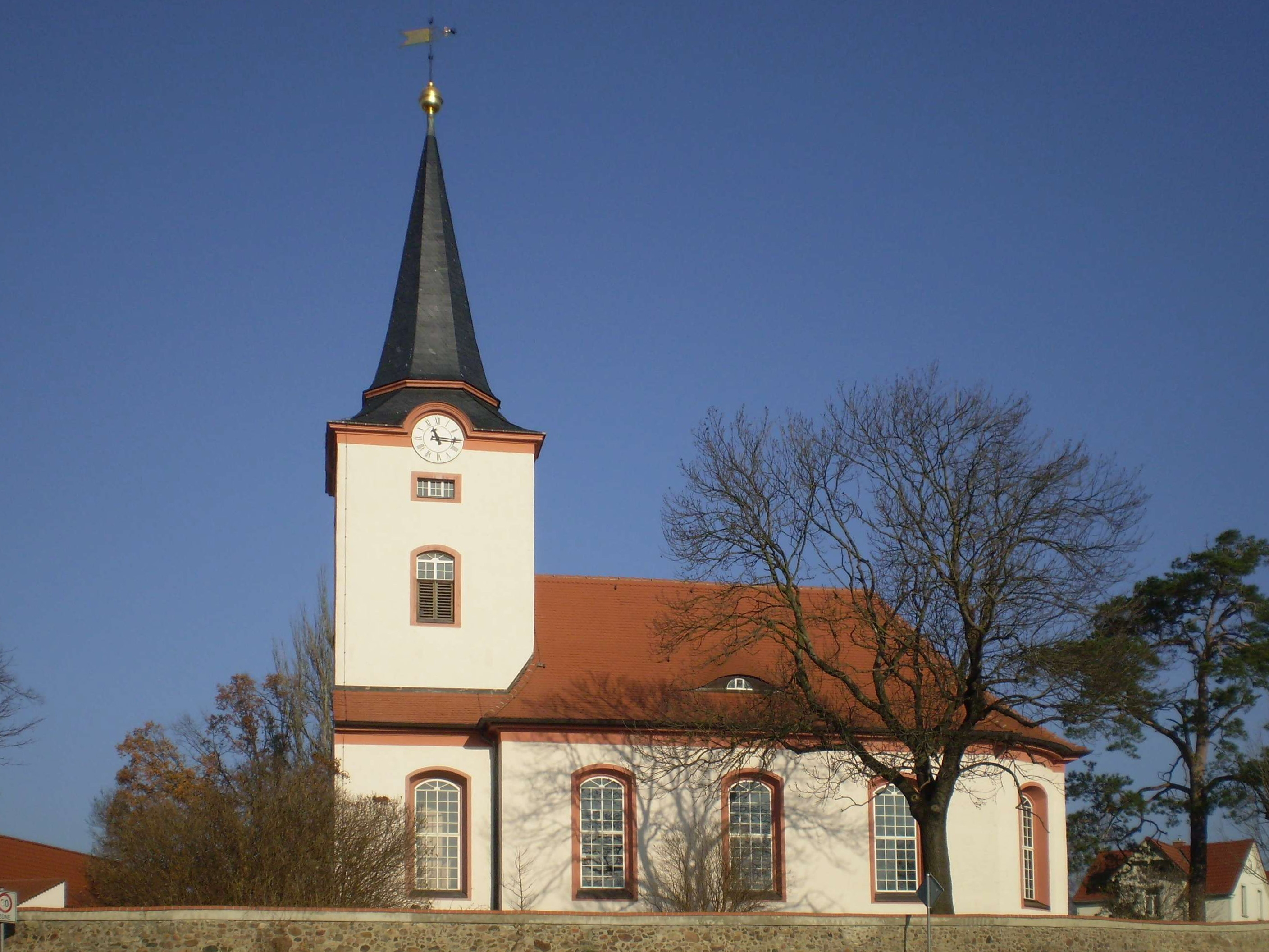 Church of Dreiskau-Muckern, Saxony, Germany.